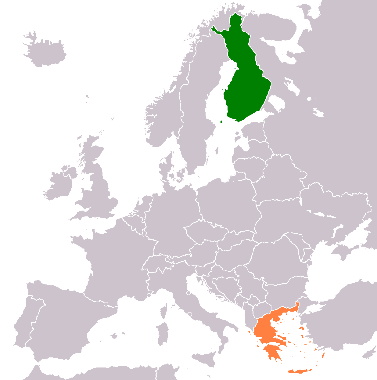 Finland-Greece locator map.